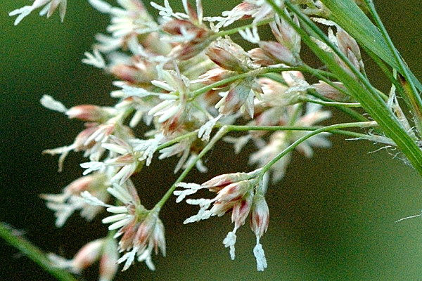 Luzula luzuloides in Commanster, Belgian High Ardennes.